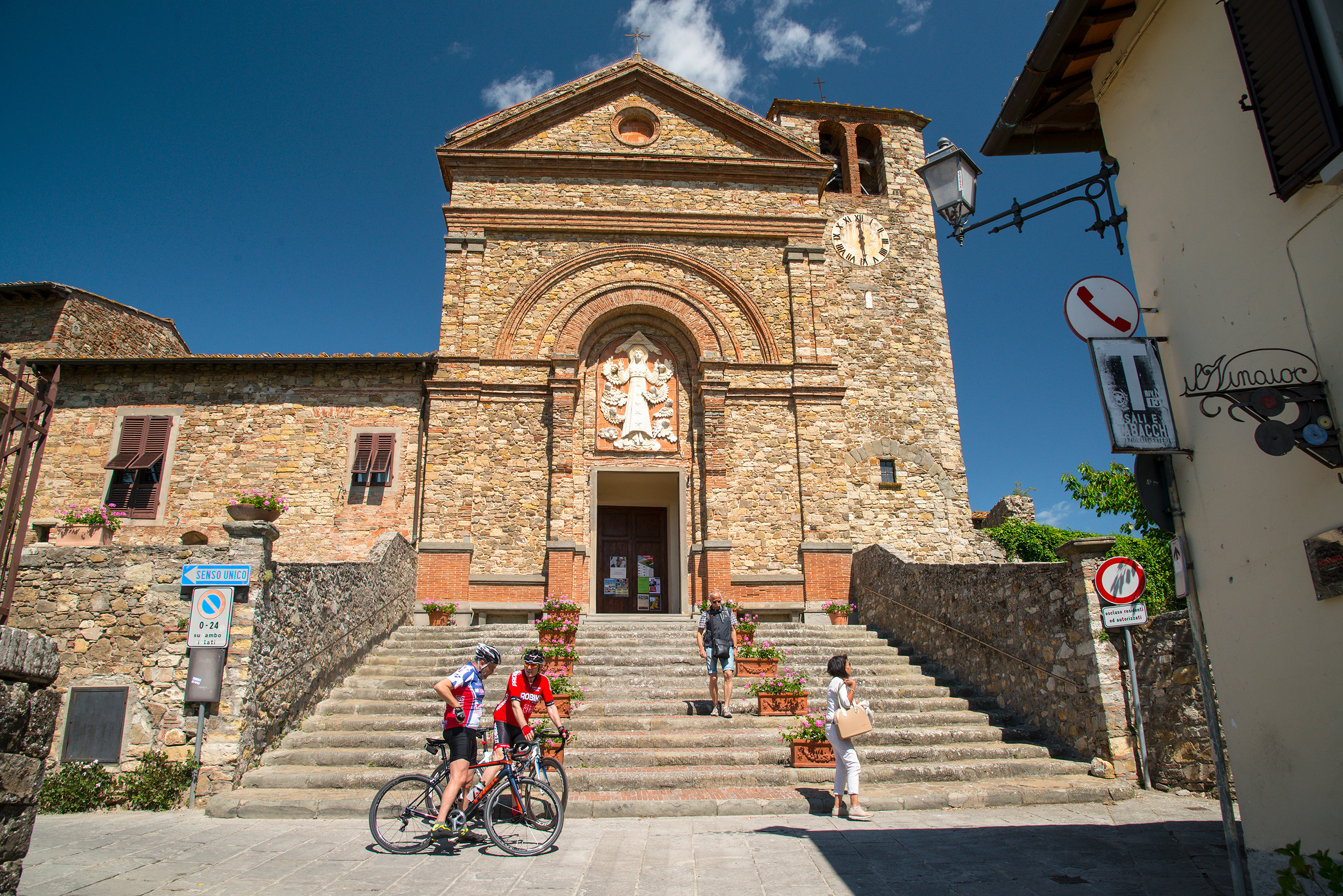 Santa Maria Castello in Panzano in the historic area